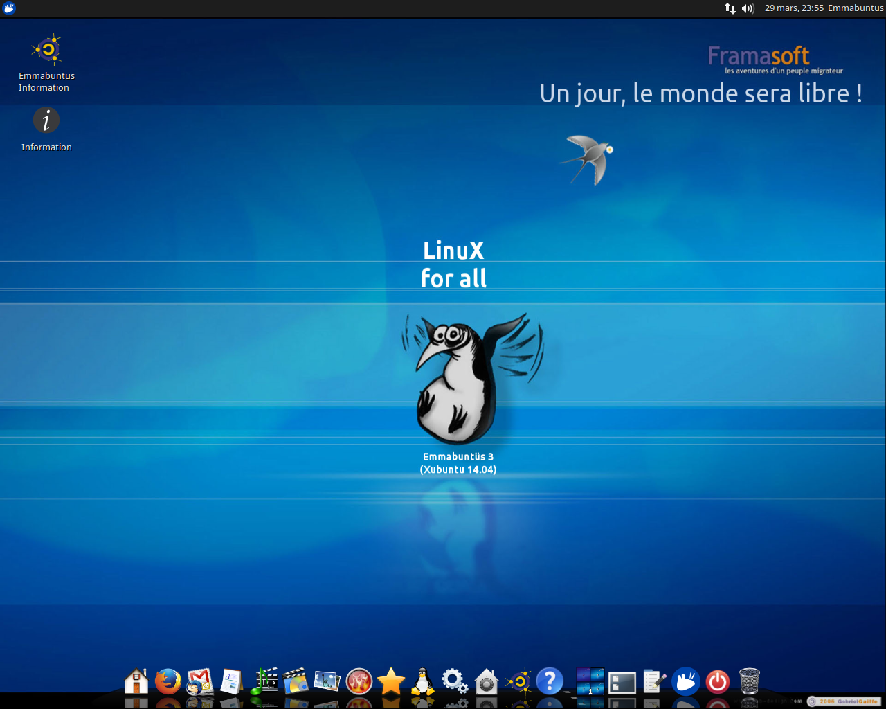 Emmabuntüs 3 14.04 Trusty Tahr: screenshot in french